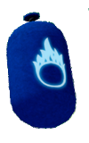 Nitro from SuperTuxKart